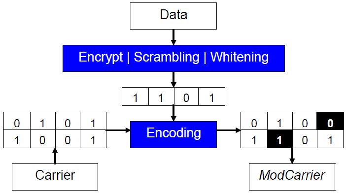 OpenPuff v3.30 Architecture - 8